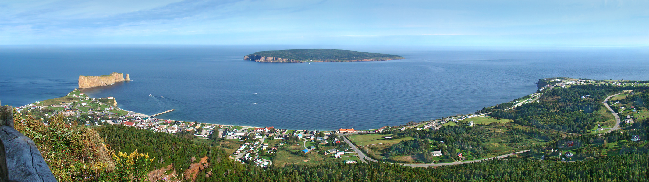 Percé, Gaspésie–Îles-de-la-Madeleine, Quebec, Canada. Panoramic view from the belvedere 5 of Mount Saint Anne, spreading from the Percé Rock to Cape Blanc.